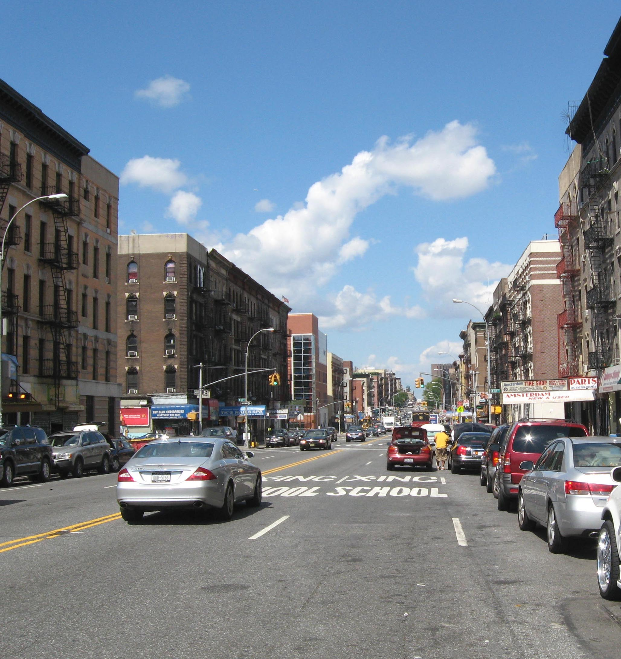 Looking north along Tenth Avenue (Manhattan) at 164th Street in Washington Heights while pedalling towards Highbridge Park on a sunny midday. ZIP 10032.